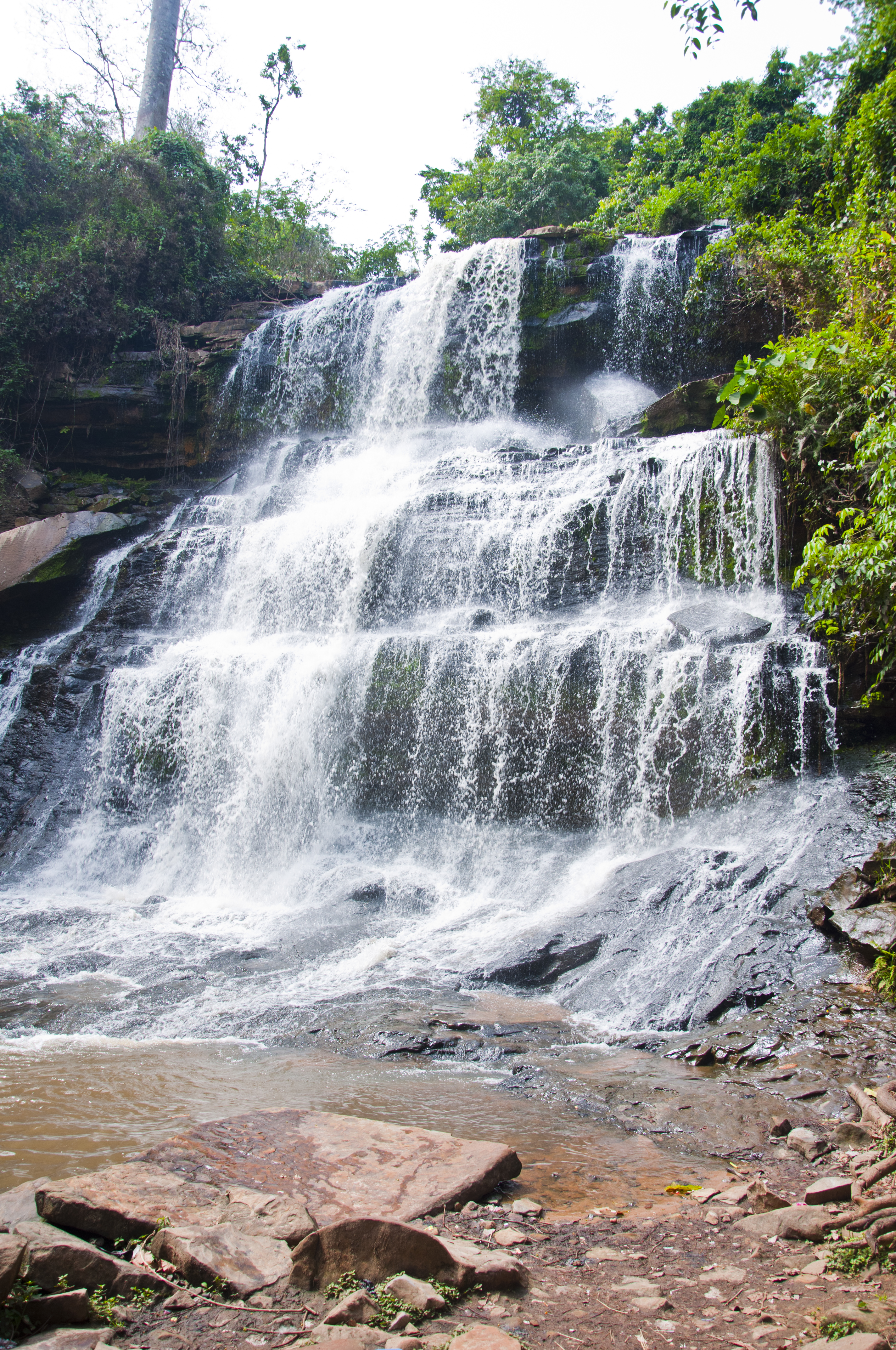 Kintempo Water Falls II